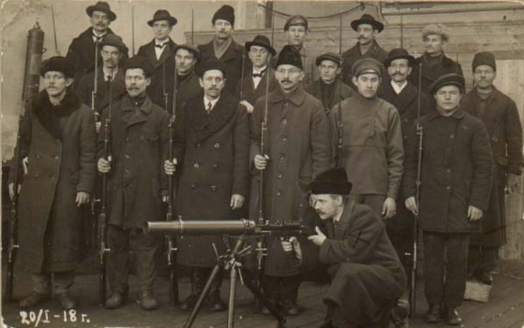 1918 Finnish Civil War: Machine gun company of the Helsinki Red Guard.